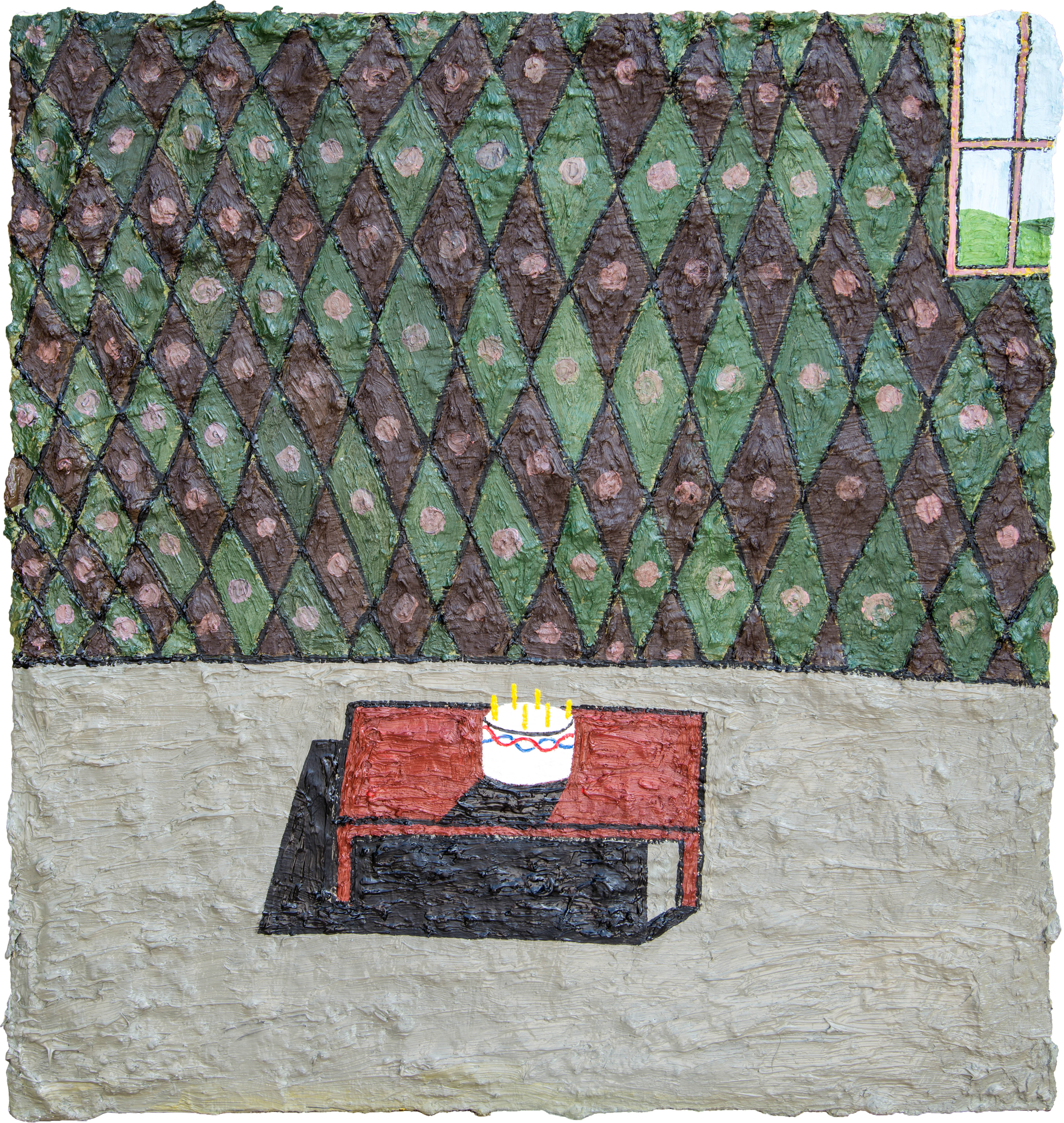 oil on canvas